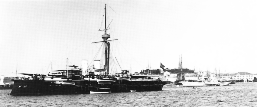 Coastal Defense Ship SMS Kronprinz Erzherzog Rudolf of the Austro-Hungarian Navy